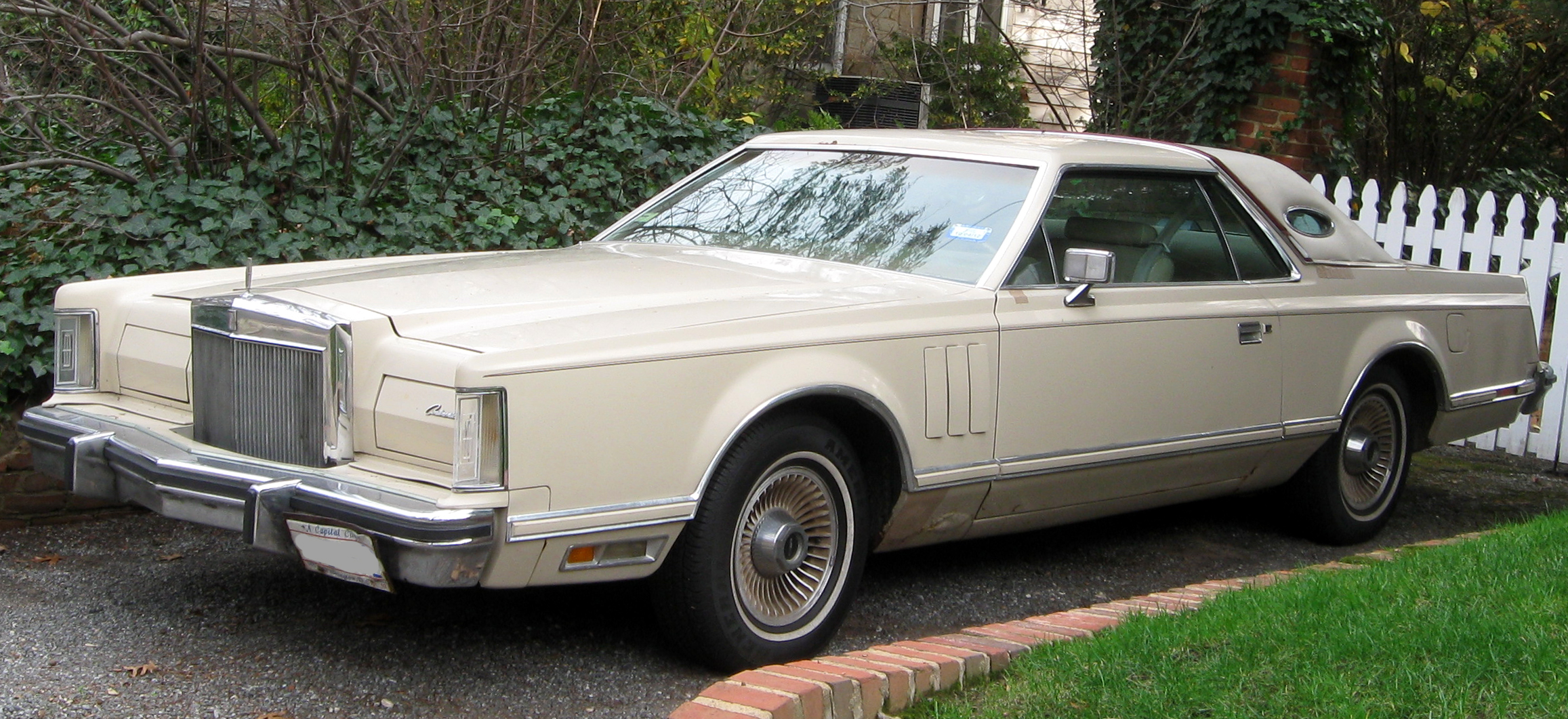 Lincoln Continental Mark V (1979 Cartier Designer Edition) photographed in Washington, D.C., USA.